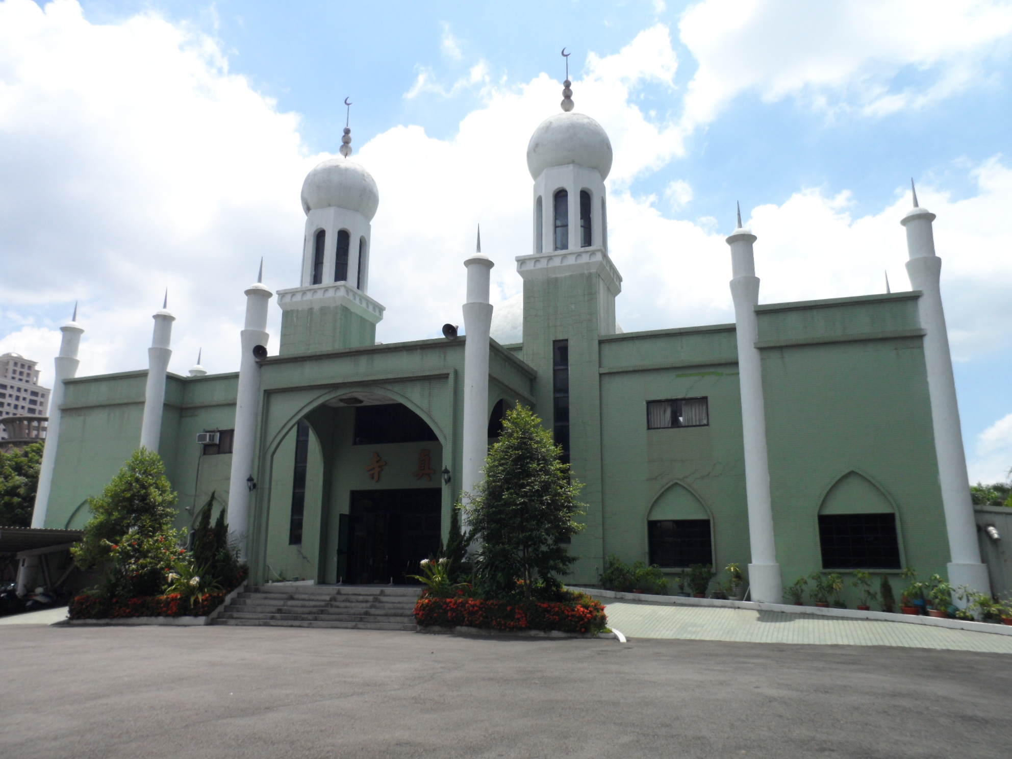 Taichung Mosque, Nantun District, Taichung City, Taiwan